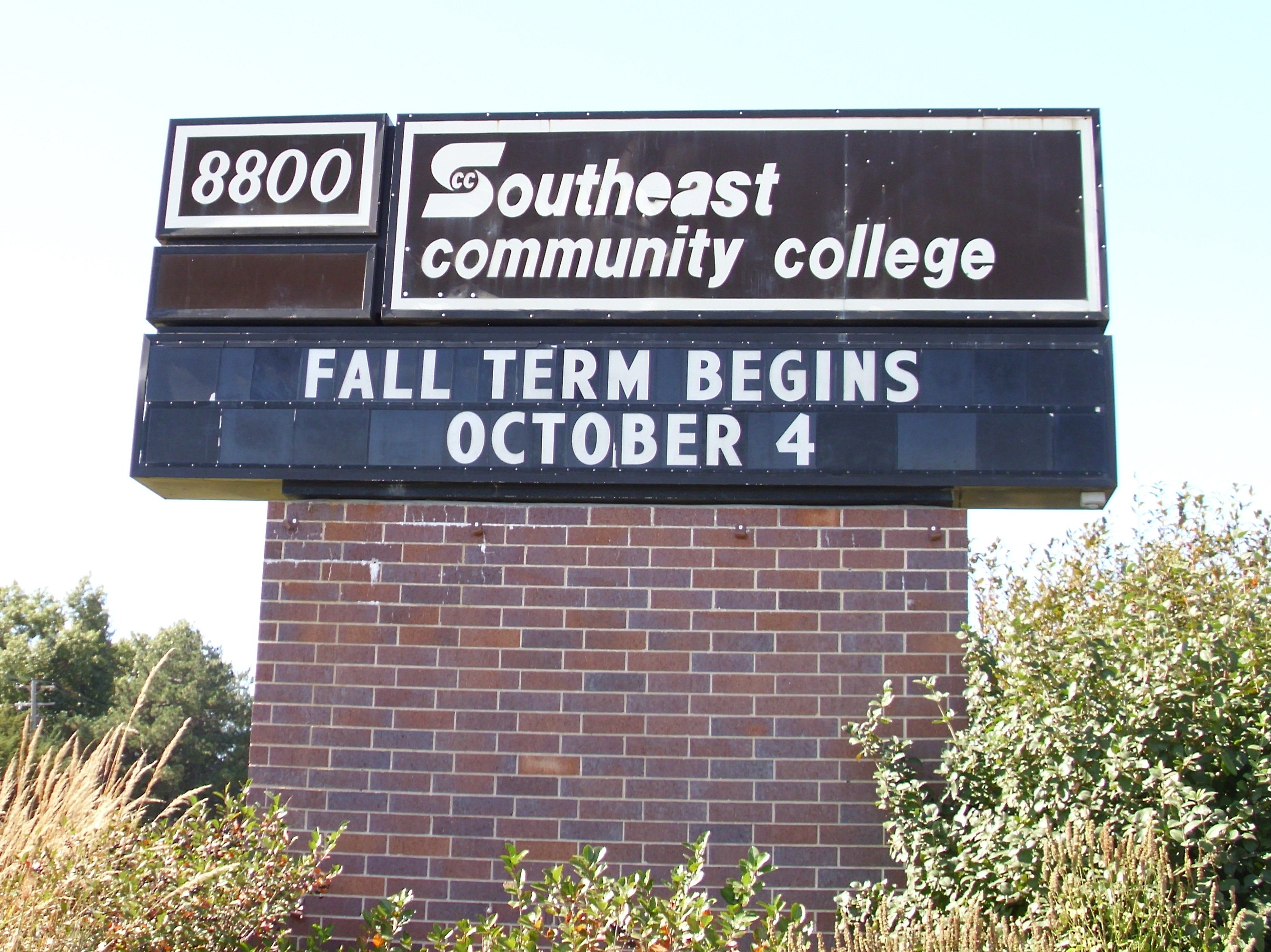 Southeast Community College road sign at its entrance on O Street in Lincoln, NE.